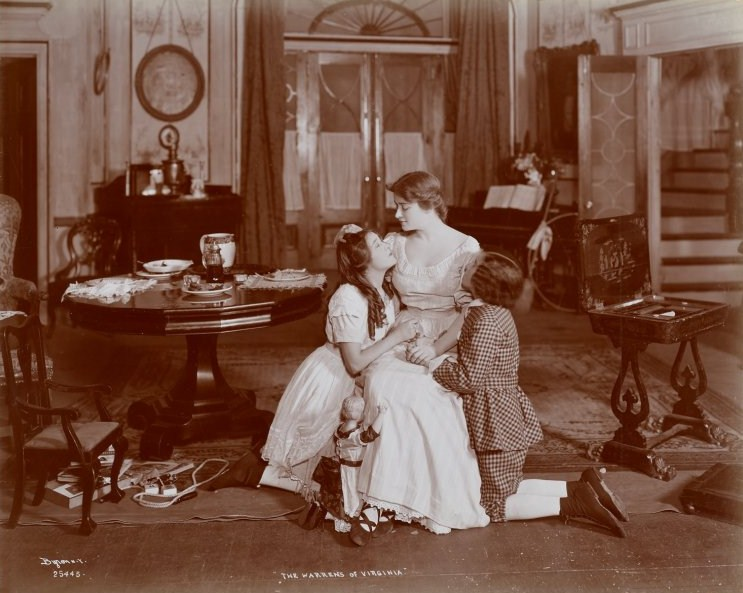 Left to right: Mary Pickford, Charlotte Walker, and Richard Storey in the William C. de Mille's play The Warrens of Virginia, Broadway.